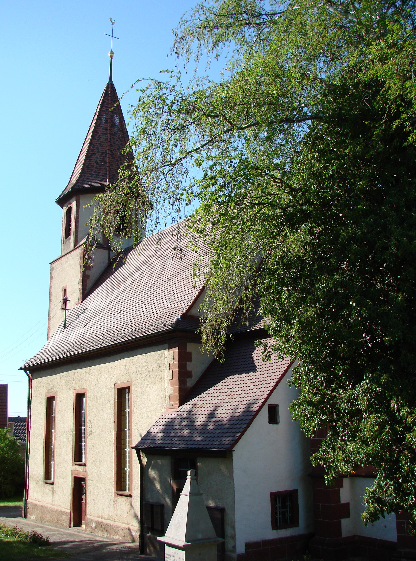 Blumhardt-church in the village of Möttlingen, named after the parish priest Johann Christoph Blumhardt